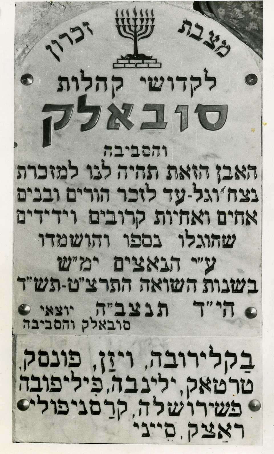 The memorial of the murdered jews of Suwałki (Suwalki, סובאלק) and the neighbour communities, Yad Vashem, Jerusalem